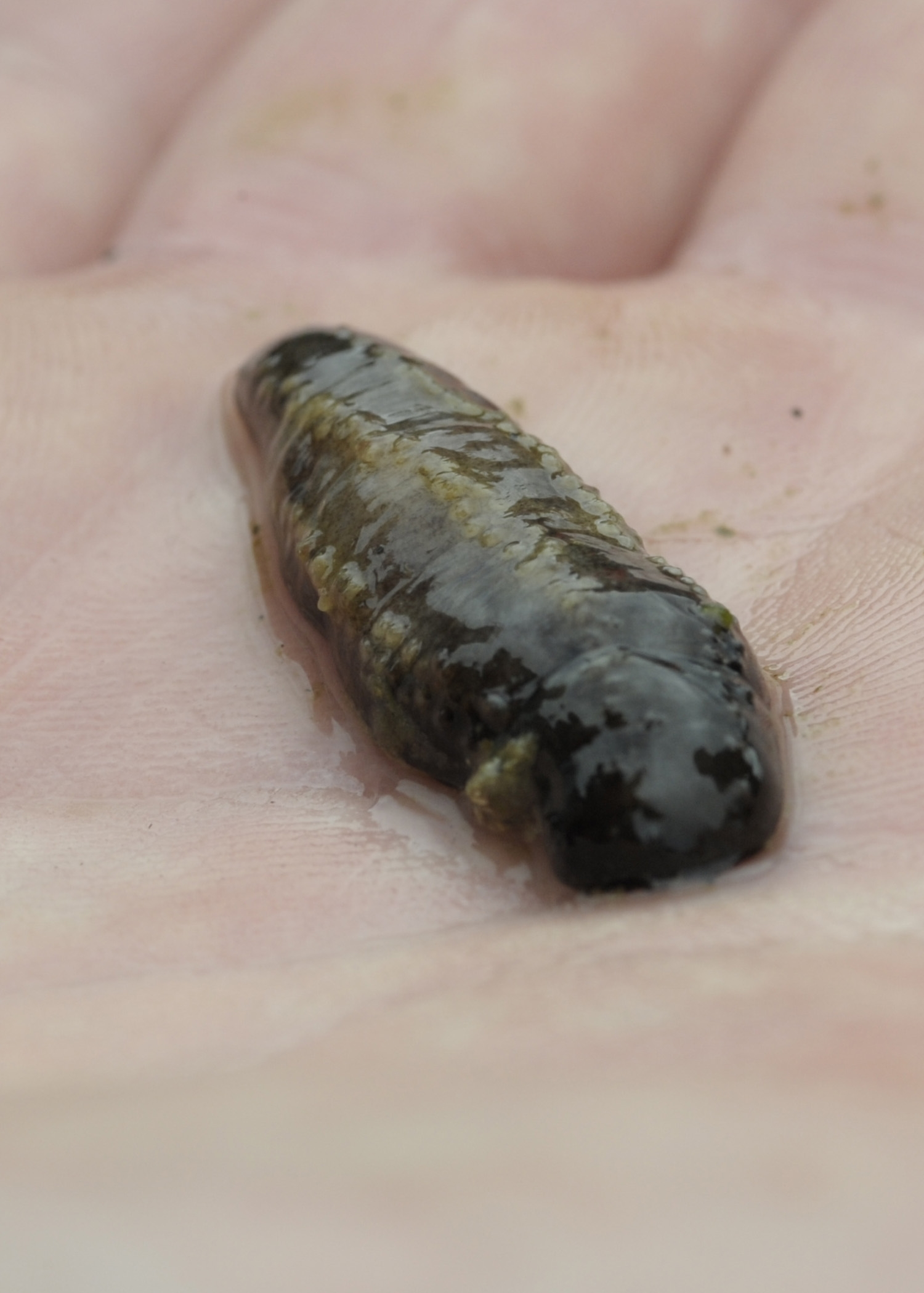 Cucumaria vegae, tiny black sea cucumber, in hand. Note that the feeding tentacles are retracted and the rows of tube feet are visible.